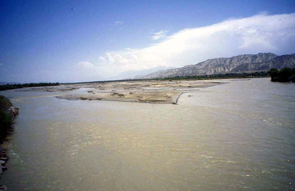 The Naryn River near the town of Naryn in Kyrgyzstan